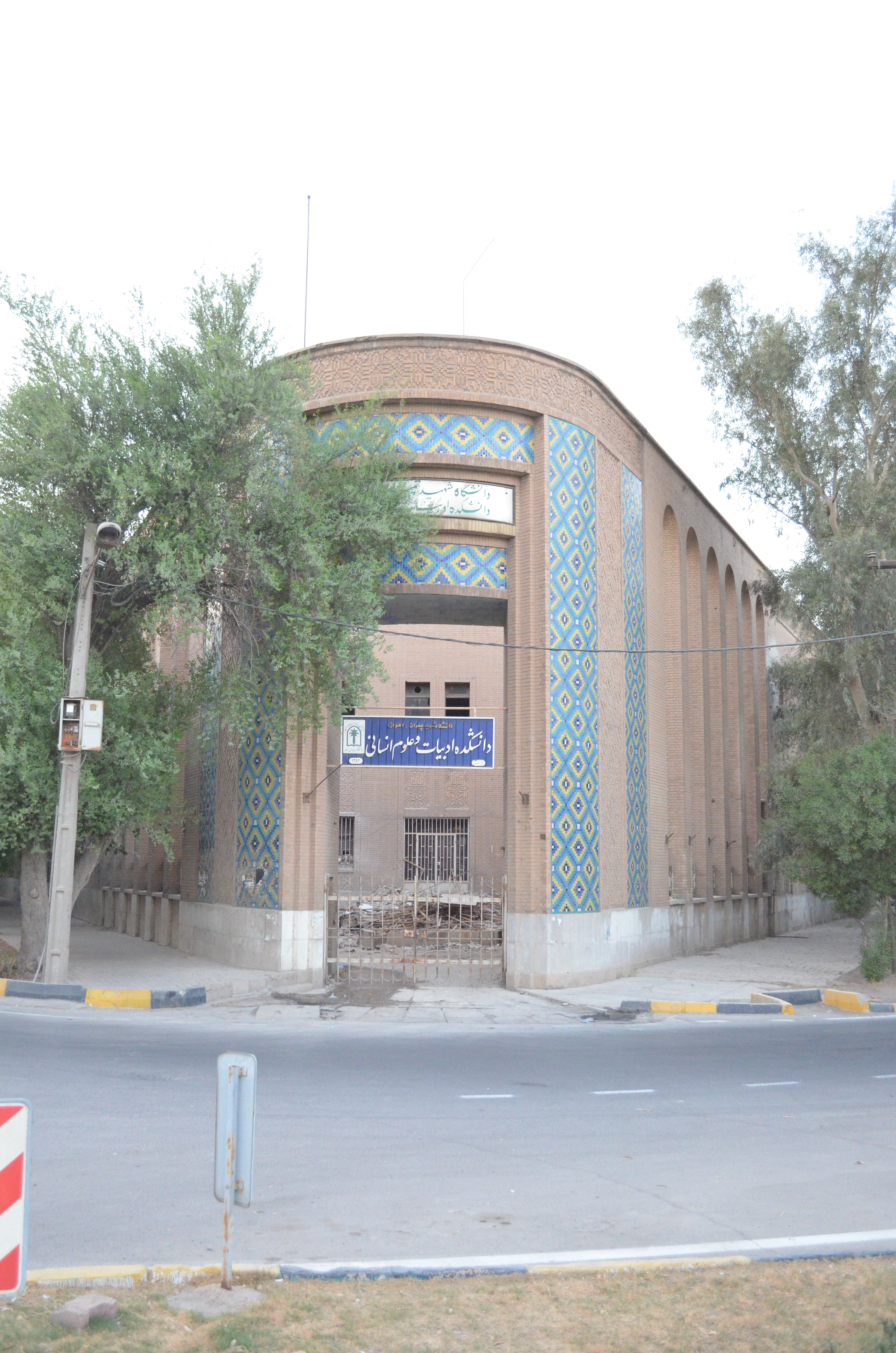 Faculty of Literature and Humanities, Shahid Chamran of Ahvaz